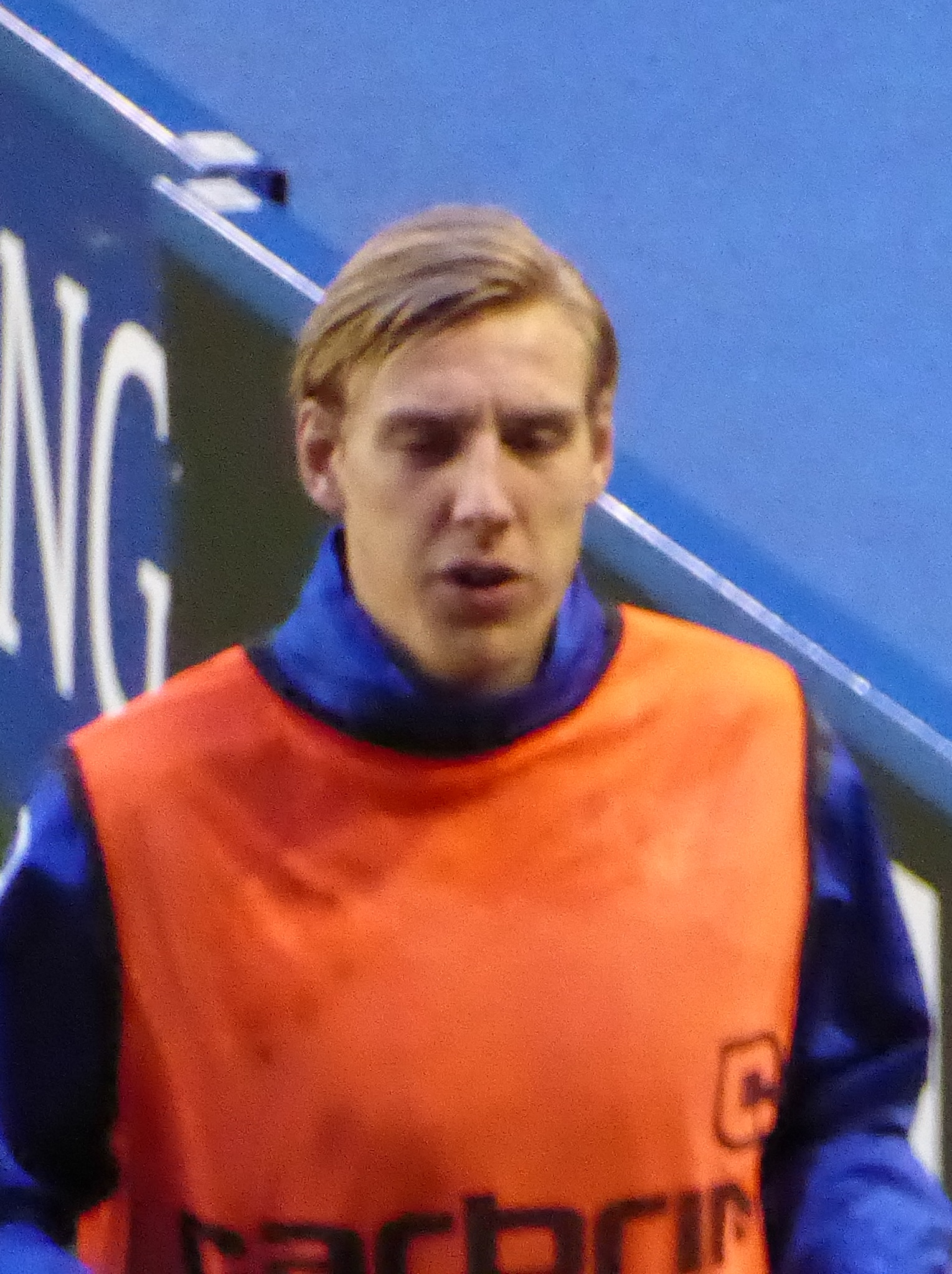 Nicolai Brock-Madsen of Birmingham City F.C. warming up during a match at St Andrew's in January 2016